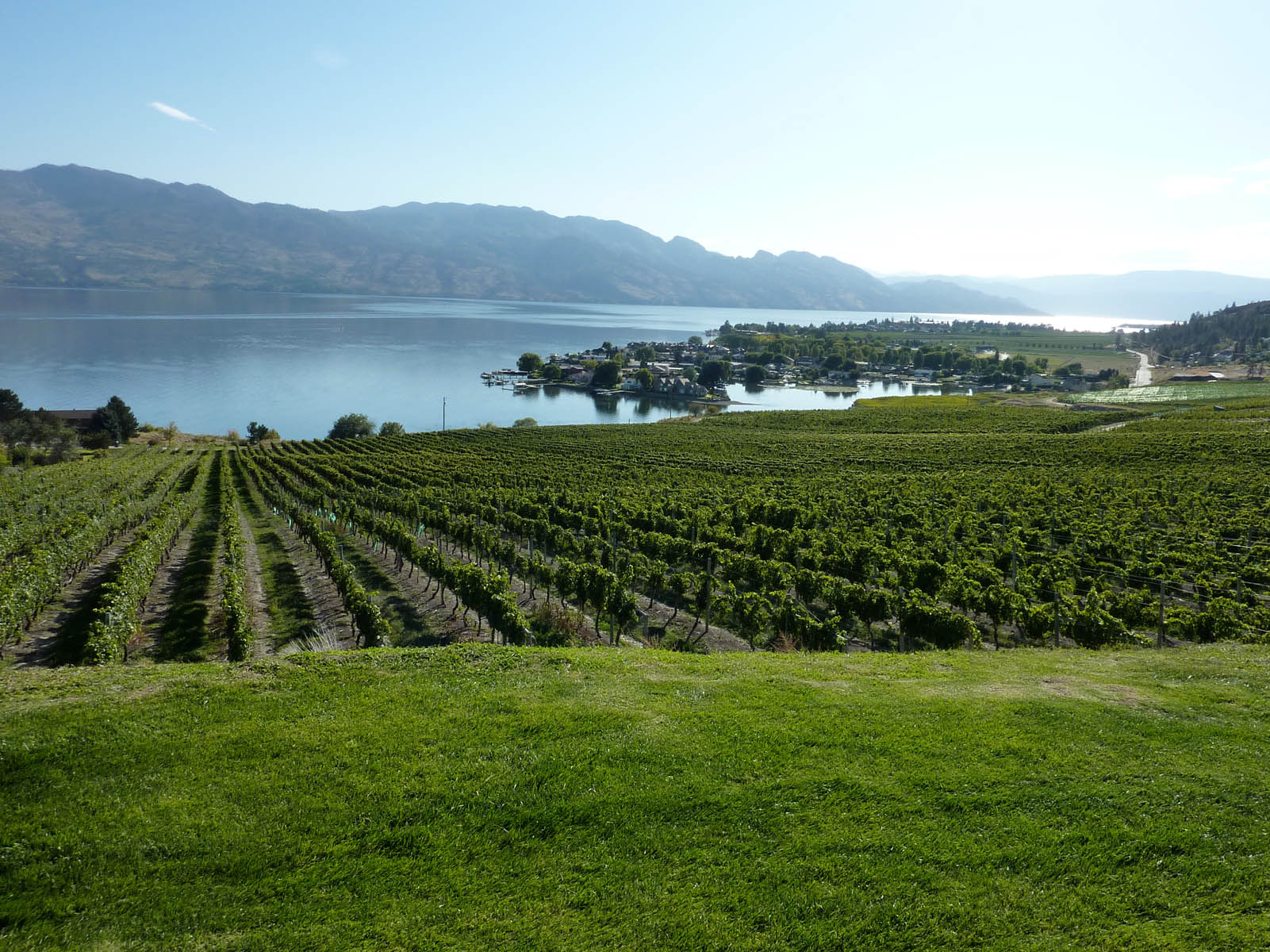 Vineyard growing in the Canadian wine region of the Okanagan Valley in British Columbia